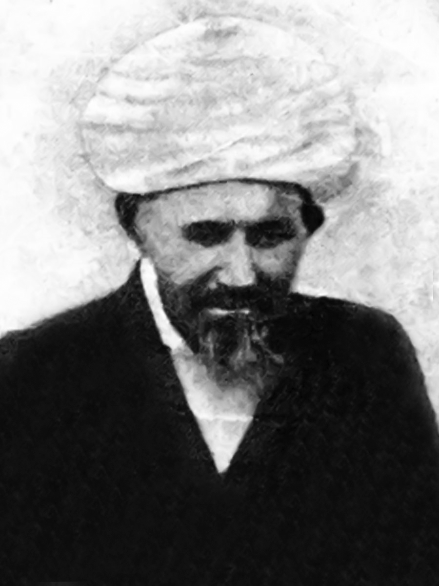 Sheikh Rasulev Zaynulla (1833-1917).